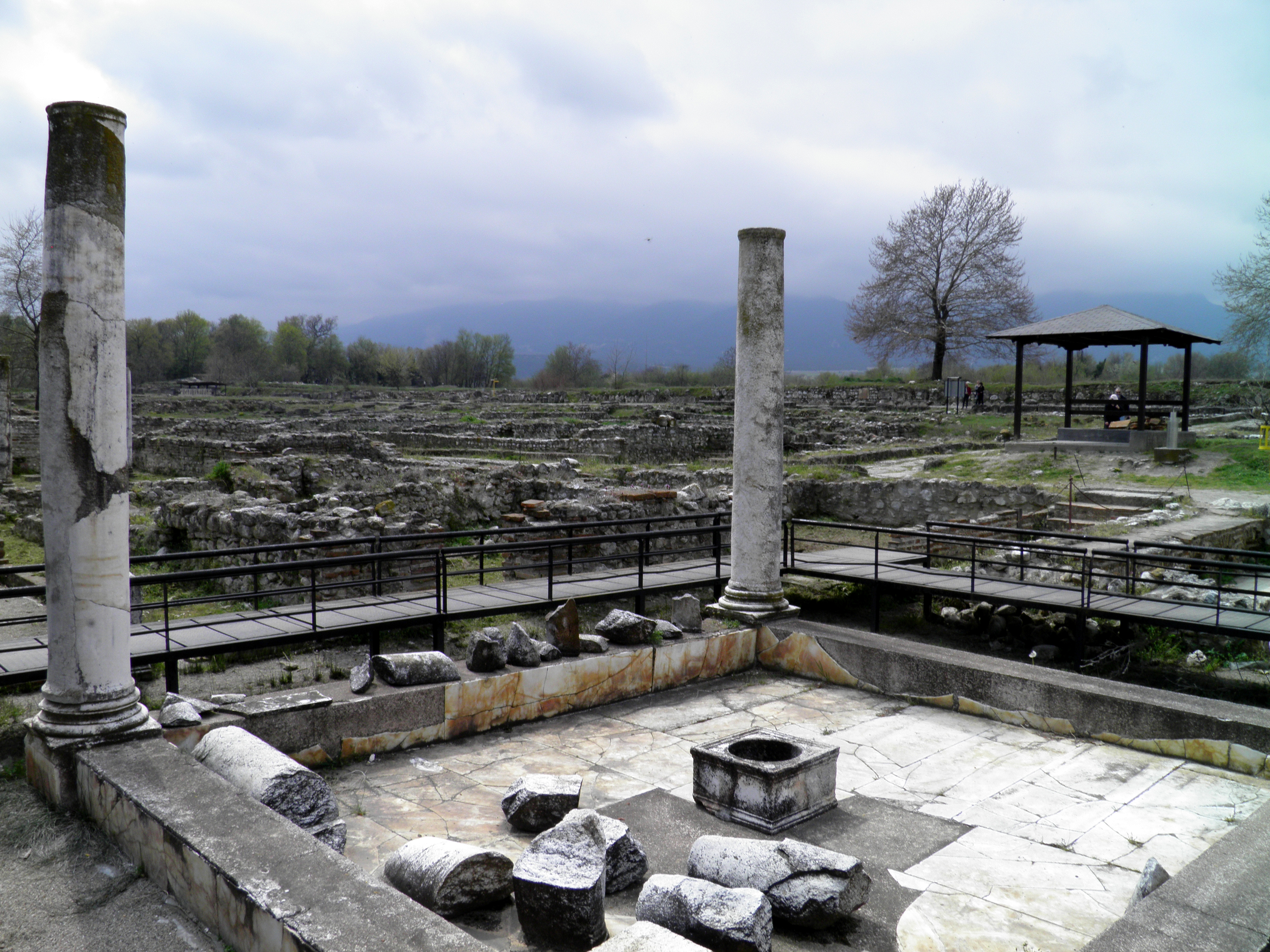 The 'Dionysus Villa', which dates from the second half of the 2nd century AD, is actually a complex of buildings, with luxurious living quarters built around four atriums and a tetrastyle courtyard, a shrine of Dionysus, a bathhouse and shops. The excavations brought to light a wealth of sculptures and pieces of the costly furniture that once stood in the formal reception rooms. The floor mosaic in the banqueting room, depicting a triumphal epiphany of Dionysus copied from a Hellenistic painting, is exceptionally fine.